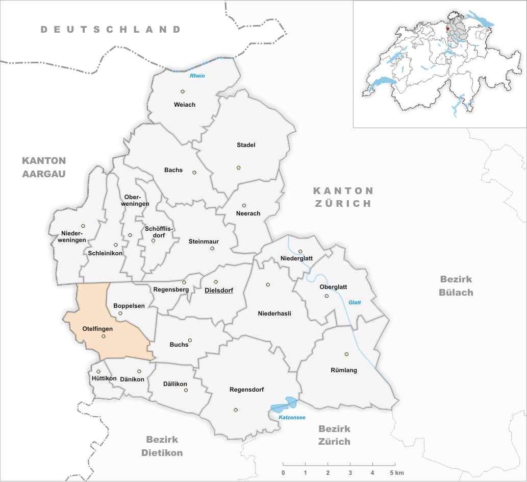 Municipality Otelfingen